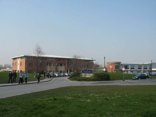 Saints Peter and Paul Catholic College Saints Peter and Paul Catholic College on Highfield Road.